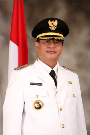 Wahidin Halim as Mayor of Tangerang